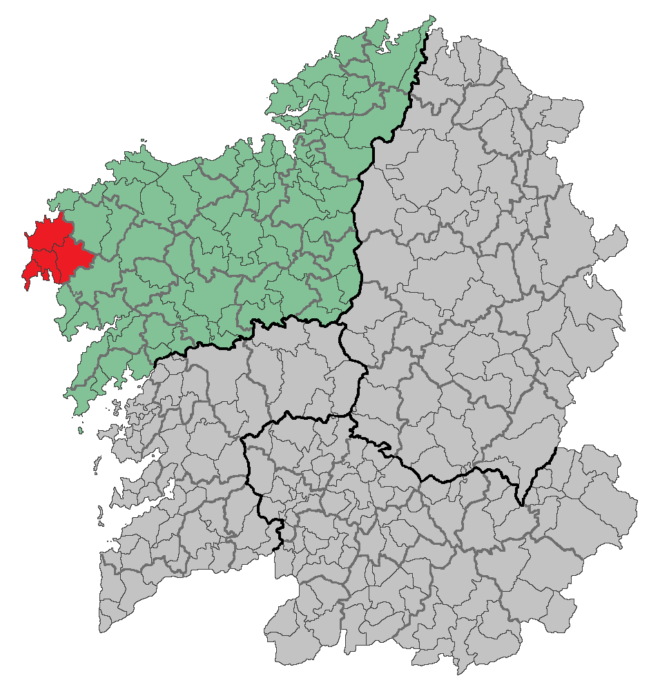 Region of Galicia (Spain)Based in: Image:Location of Finisterre.png Source: Designed by Leoplus. Original picture, designed by Caiser over a work made by Alyssalover.